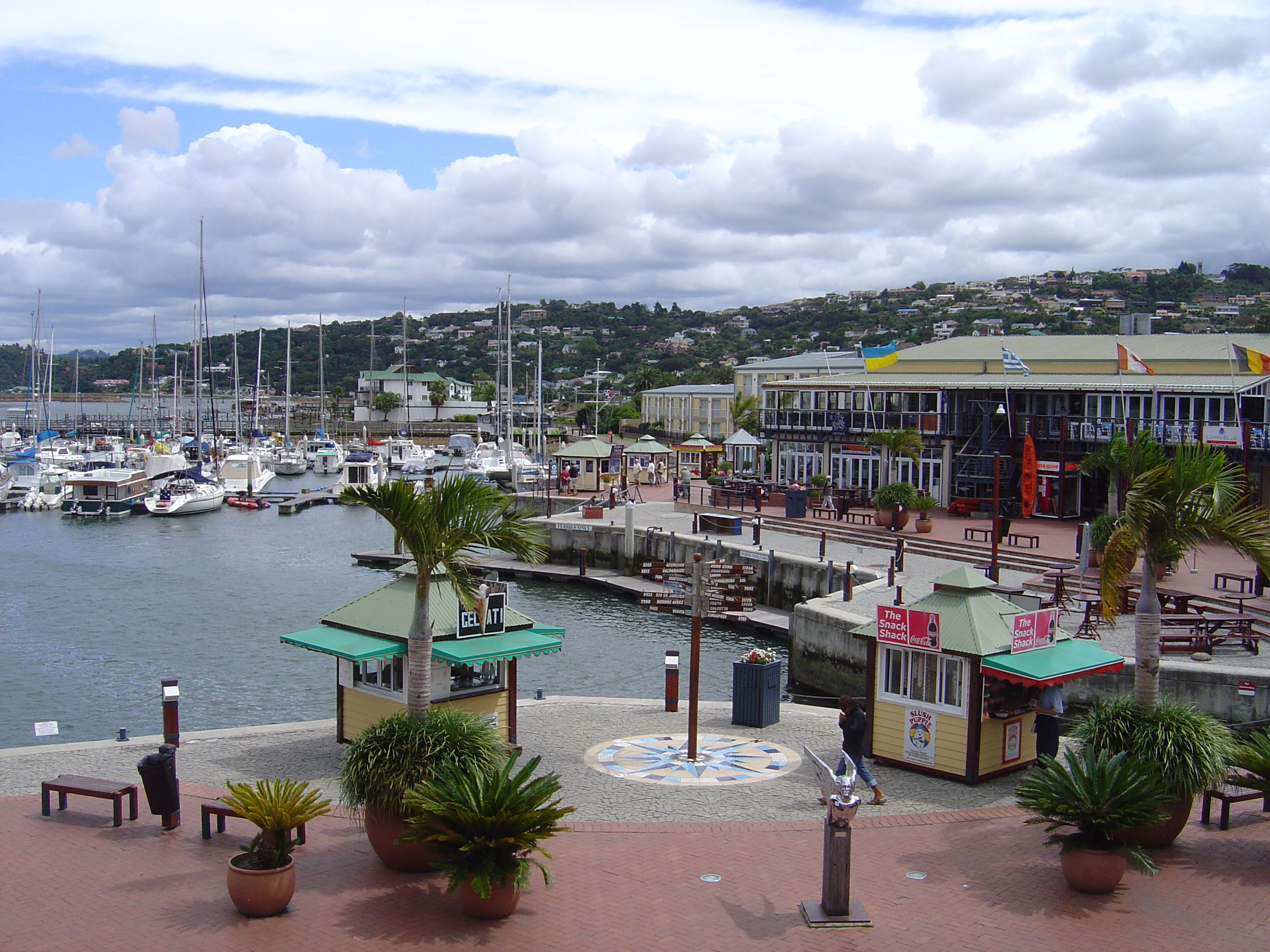 Waterfront at Knysna. Photo by User:Zaian